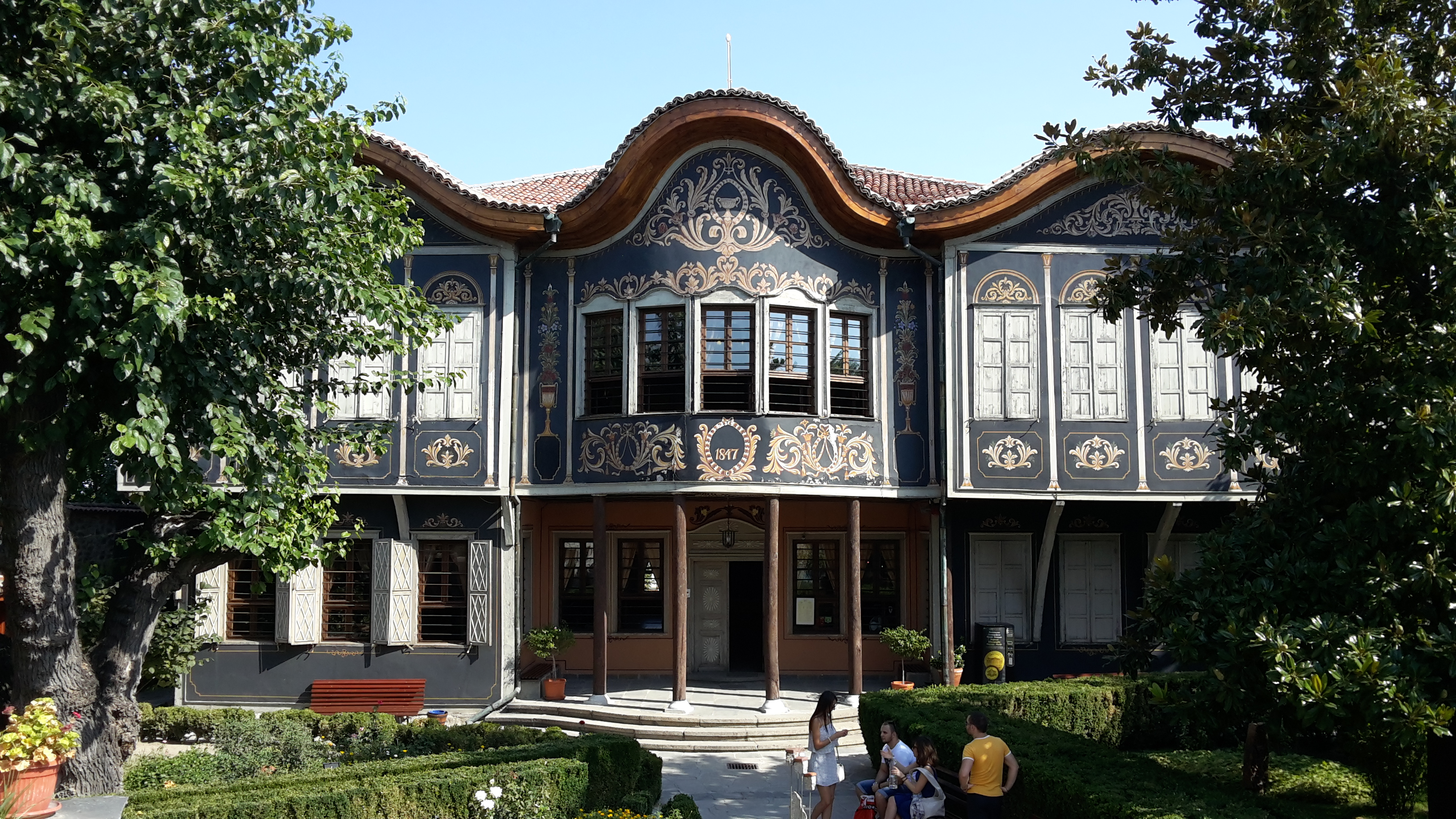 Plovdiv regional еthnographic museum